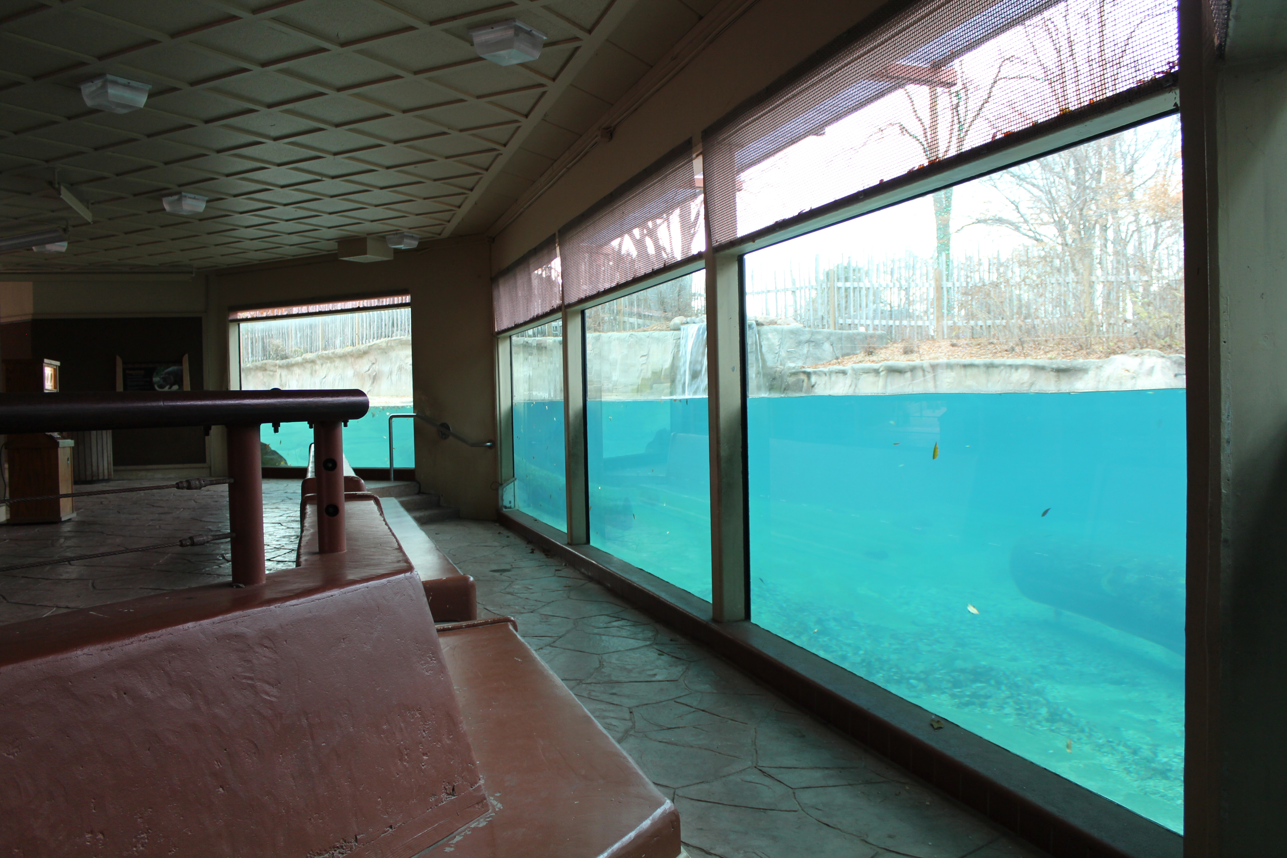 The "Hippoquarium"